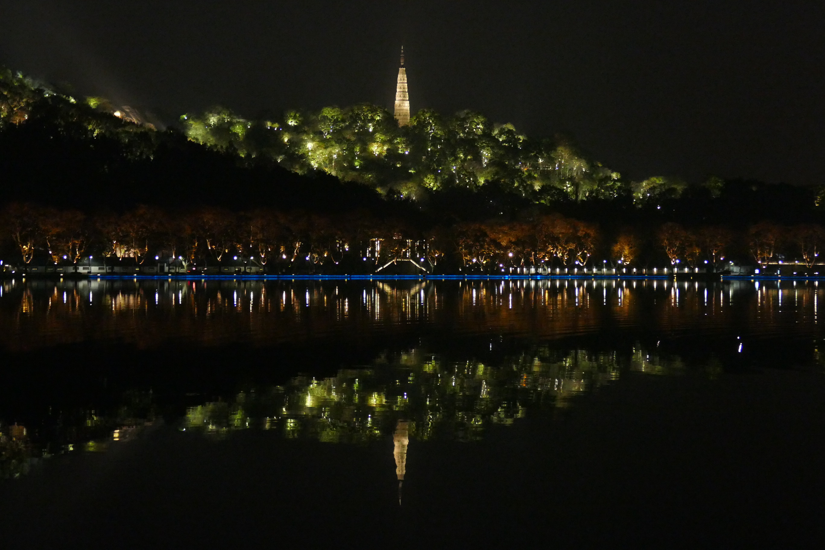 Baochu Pagoda and its reflection on the lake - Xihu (West Lake), Hangzhou, Zhejiang, China, 21.11.2014